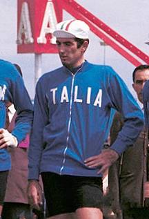 At Lomas de Sotelo Park, where cycling races took place, Mauro Simonetti is mounting the third step of the Olympic podium. Mexico City (Mexico), October 15, 1968